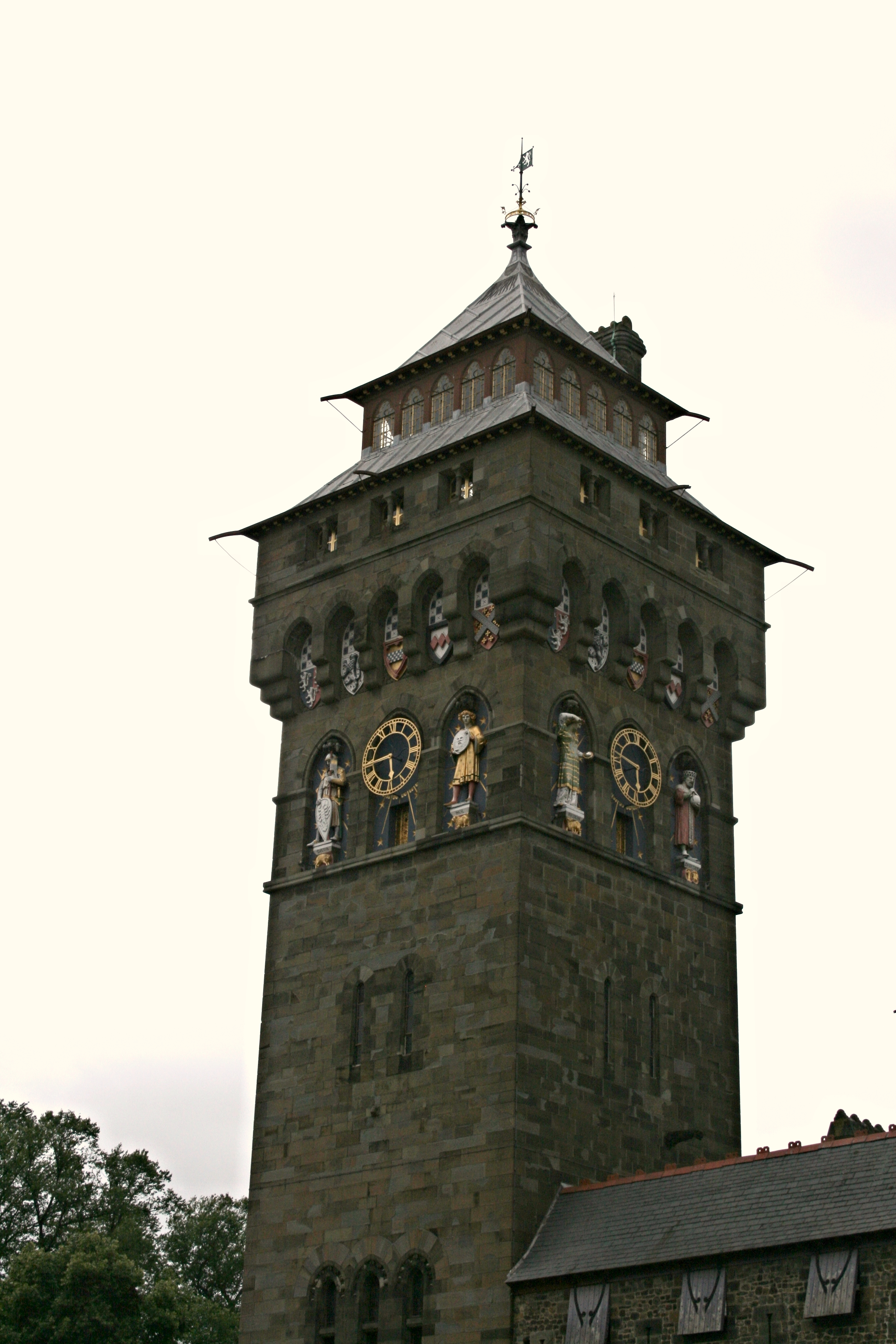 Cardiff Castle